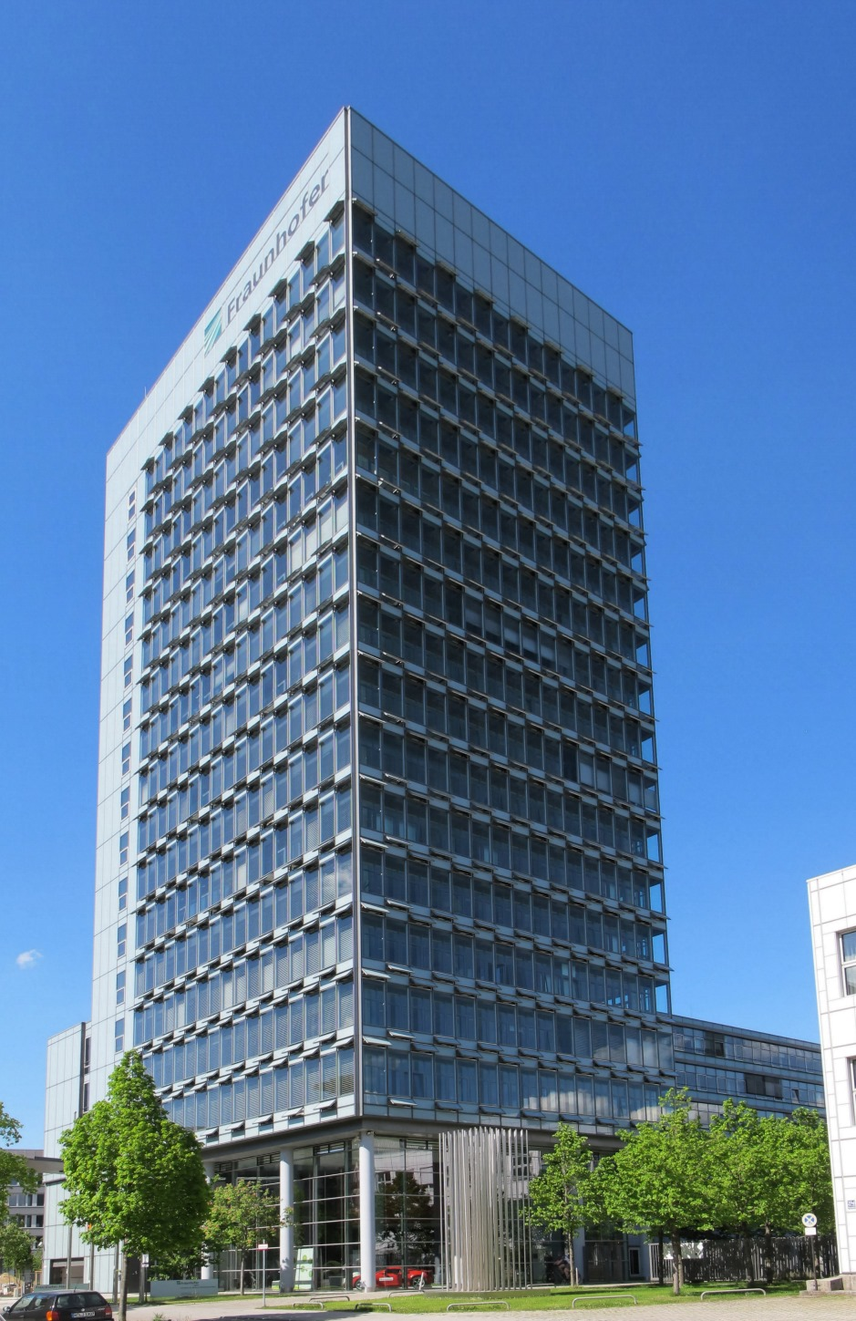 Munich, suburb "Schwanthalerhöhe", office Building "Fraunghofer Haus" of the Fraunhofer Institute"